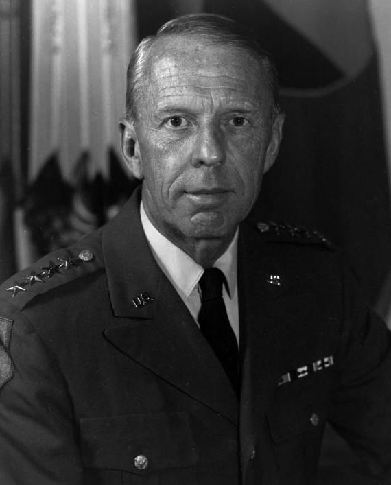 William Eugene DePuy derived from image at [1] General William E. DePuy. Taken by Clyde Wilson, Fort Monroe, VA: 12 July 1973 Image was originally created by the Office of the Chief Signal Officer; it is now held by the National Archives and Records Administration in College Park, MD. Its citation number is 111-PC-200614. Image was originally color.